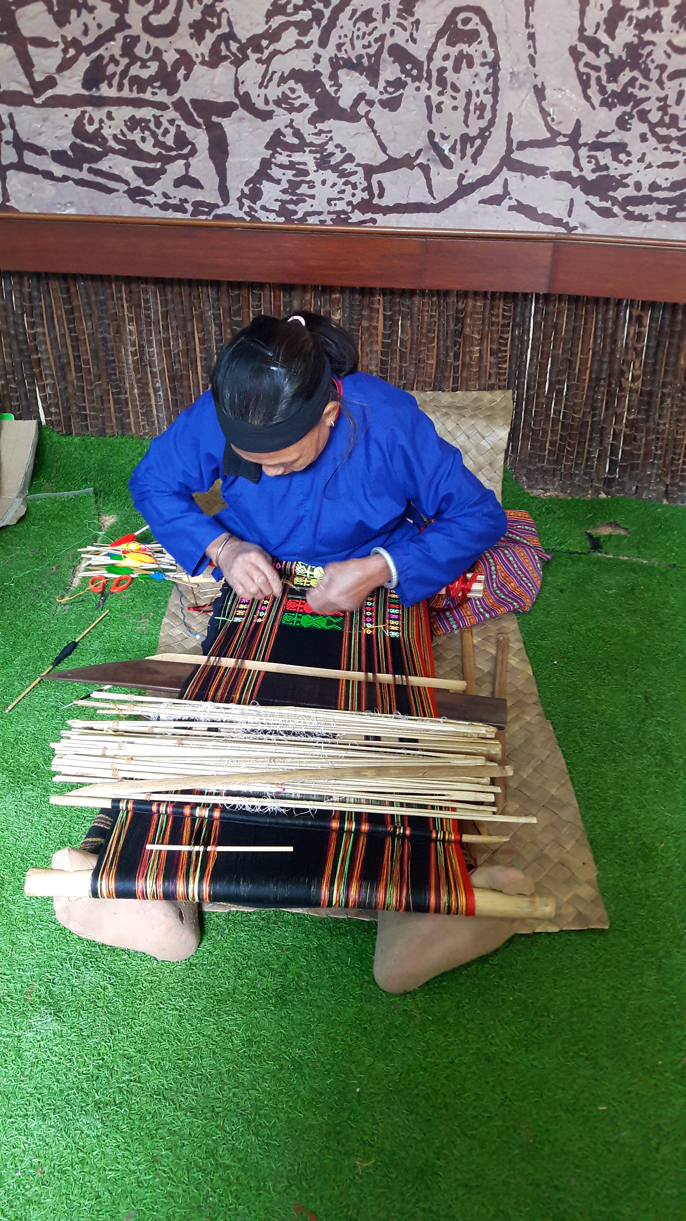 Traditionnal fabric methods of Li in Hainan Island, China. The worker use her feets to stretch the handloom.